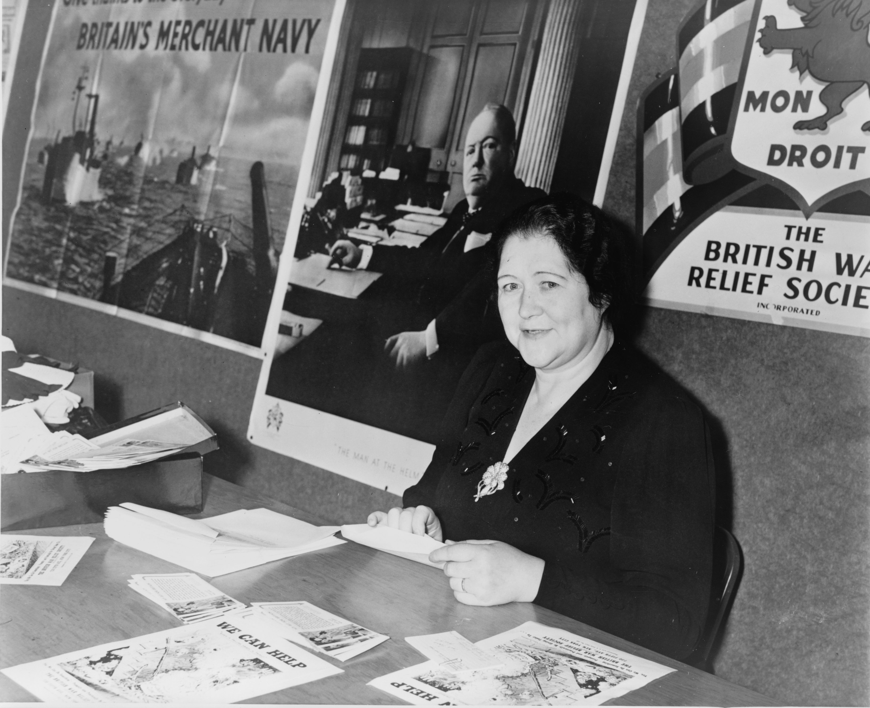 Bridget Dowling, a.k.a. Mrs. Alois Hitler, half-length portrait, seated at table offering British war relief information, facing front; similiar posters on wall behind her / World-Telegram photo by Al Aumuller.